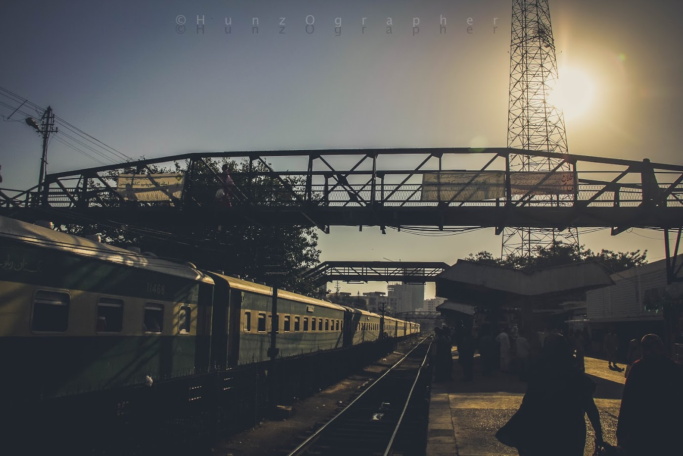 Pakistan Railways Karachi Cantonment Station